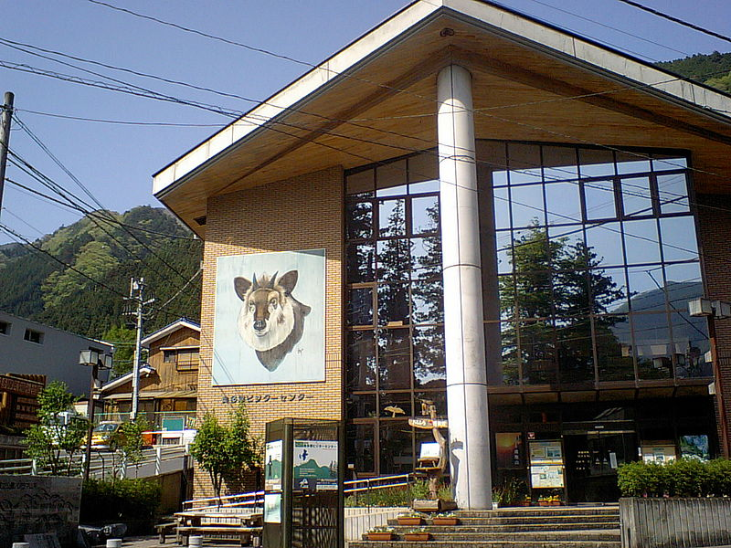 okutama information center